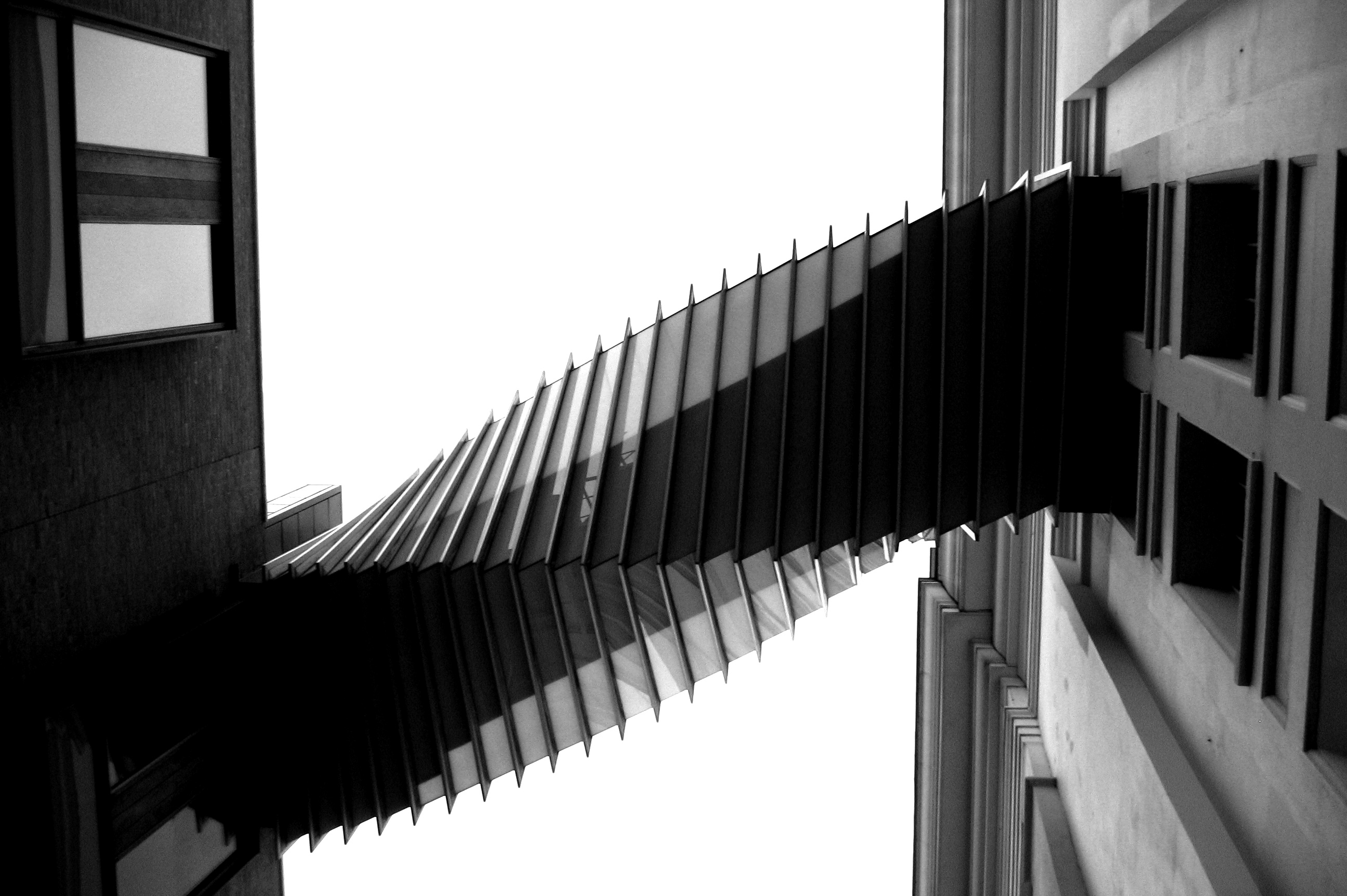 black and white, Covent Garden, portfolio